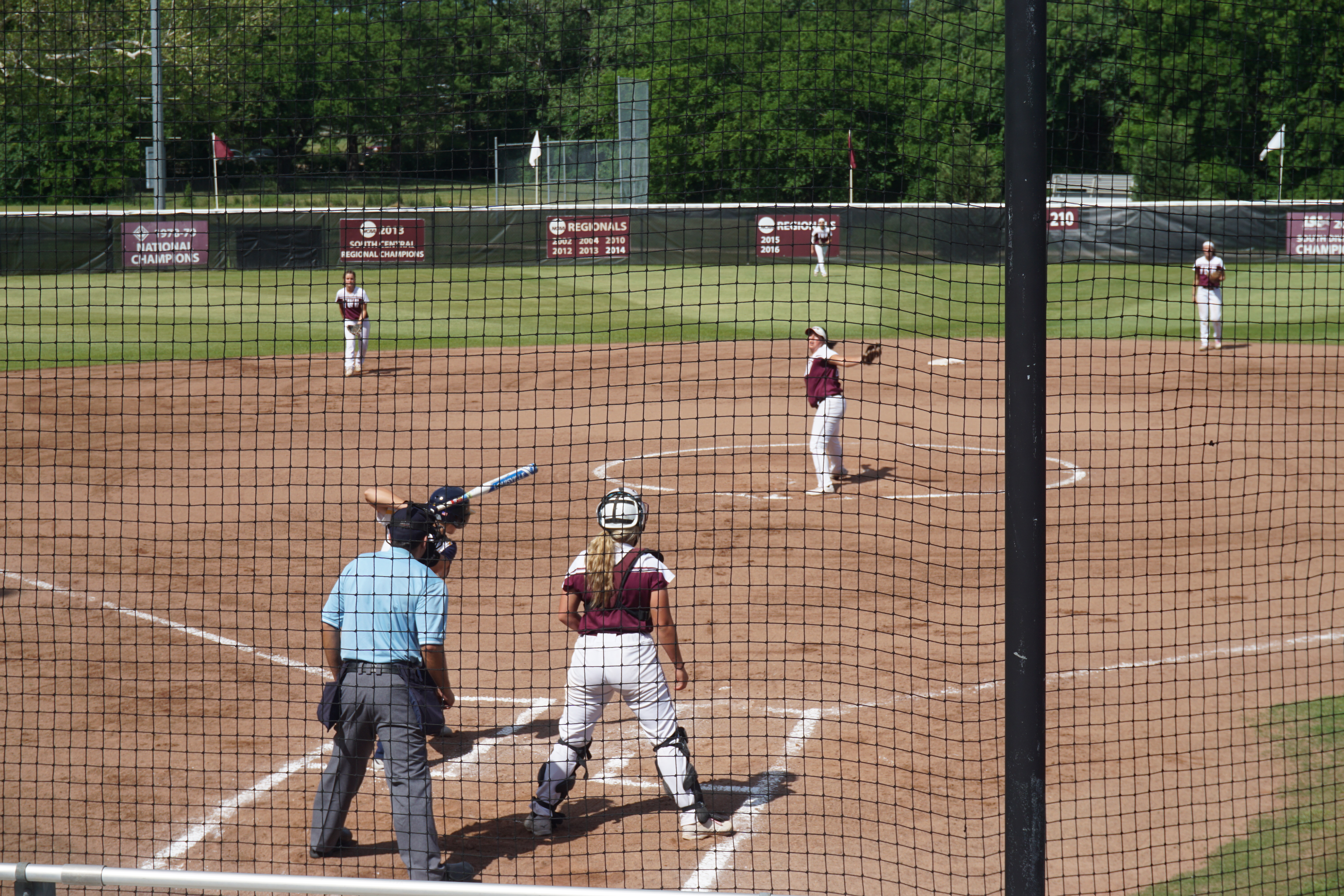 In-game action during the second game of the Texas A&M–Commerce Lions vs. Texas Woman's Pioneers softball doubleheader at Pioneer Field in Denton, Texas (United States). A&M–Commerce won the first game 13–0 and the second game 6–4.